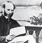 John Elliott Cairnes (December 26, 1823 - July 8, 1875) was an Irish economist. He is often described as the "last of the classical economists".